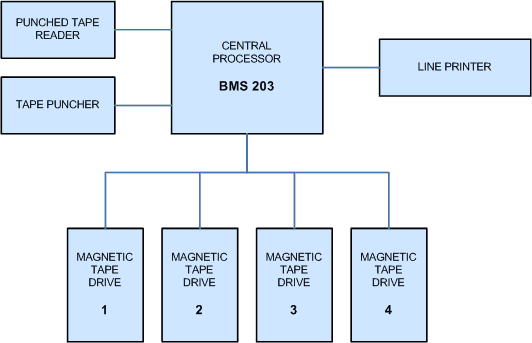 Block diagram of CER-203 computer. I created it myself based on diagrams and information from manufacturer's monography.